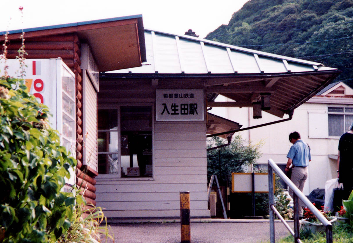 Iriuda Station, on the Hakone Tozan Line, Odawara, Kanagawa.